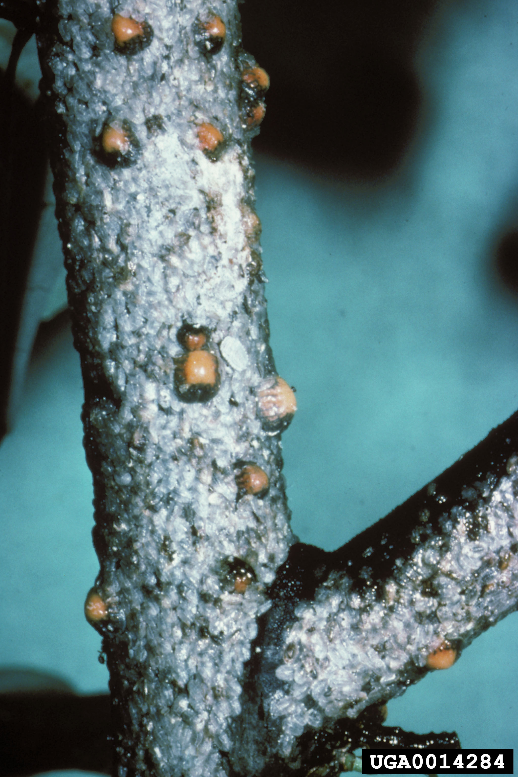 Insect species Toumeyella liriodendri on stem of tree species Liriodendron tulipifera